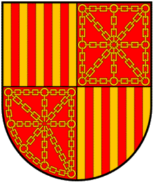 Arms of House of Híjar